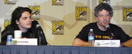 Comic book writer Gerard Way and editor Scott Allie at San Diego Comic Con 2009.